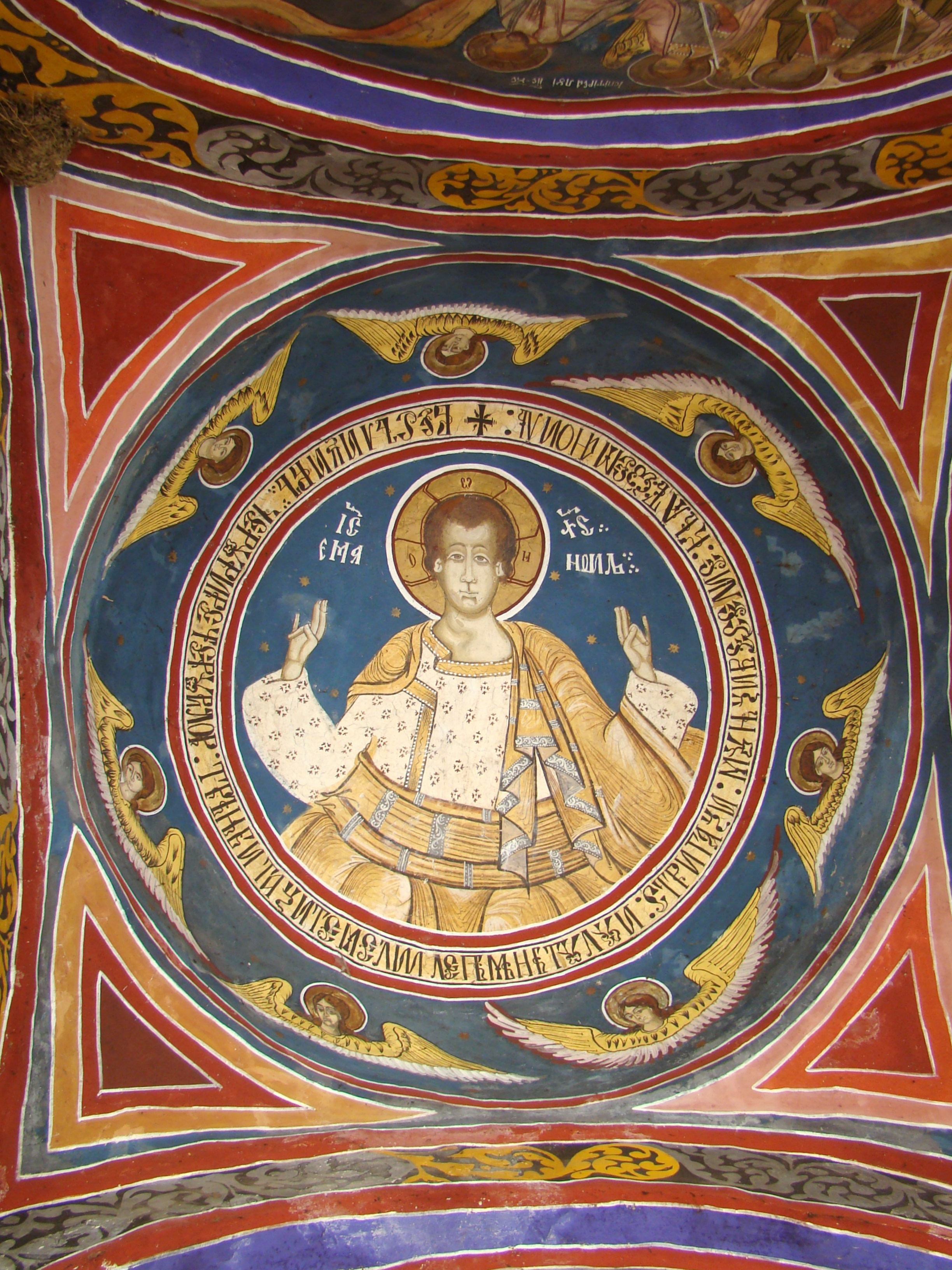 Archangels' church in Olănești, Vâlcea county, Romania